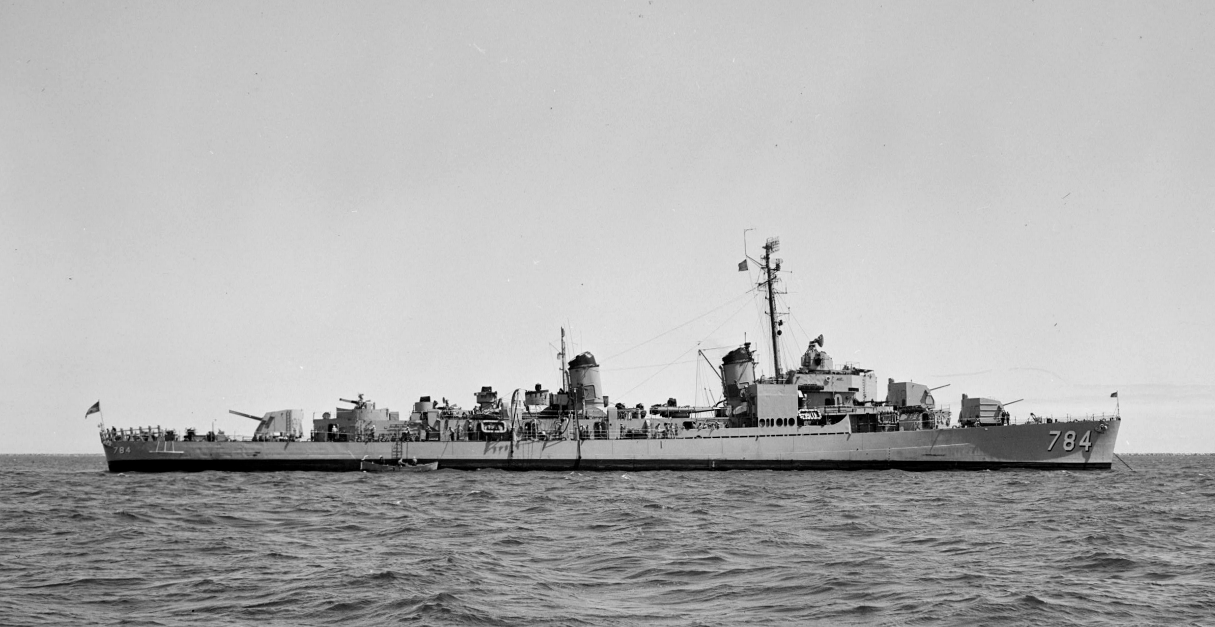 The U.S. Navy destroyer USS McKean (DD-784) off the San Francisco Naval Shipyard, California (USA), on 9 June 1952, following a regular overhaul.